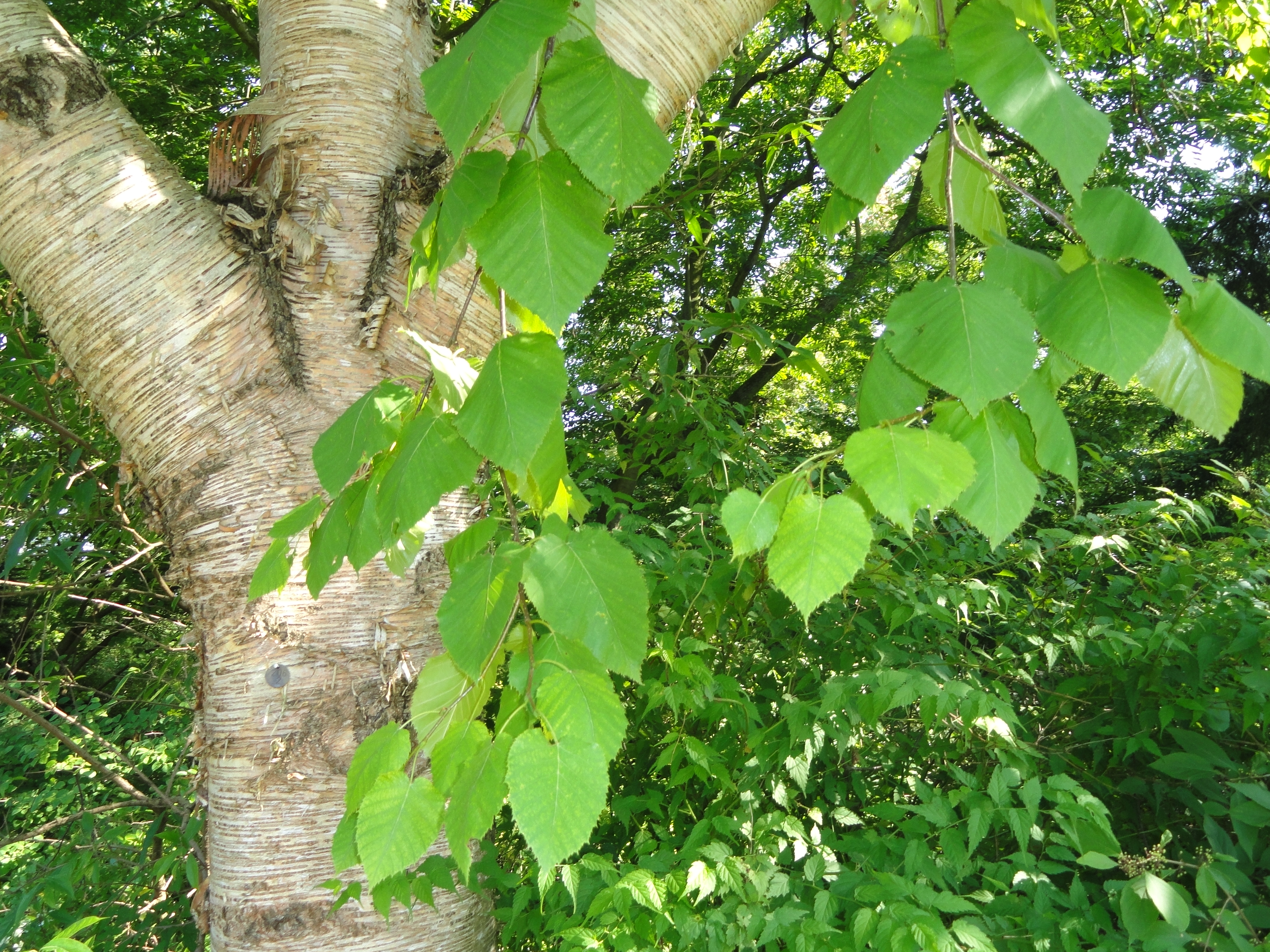 Botanical specimen in the Botanischer Garten, Frankfurt am Main, Germany.